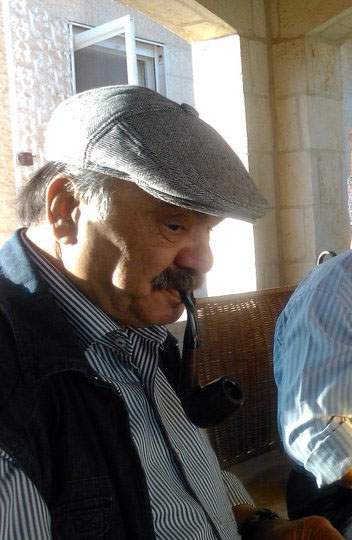 Mahmoud Taha (Arabic: محمود طه) (born 1942) is a Jordanian artist, potter and ceramicist